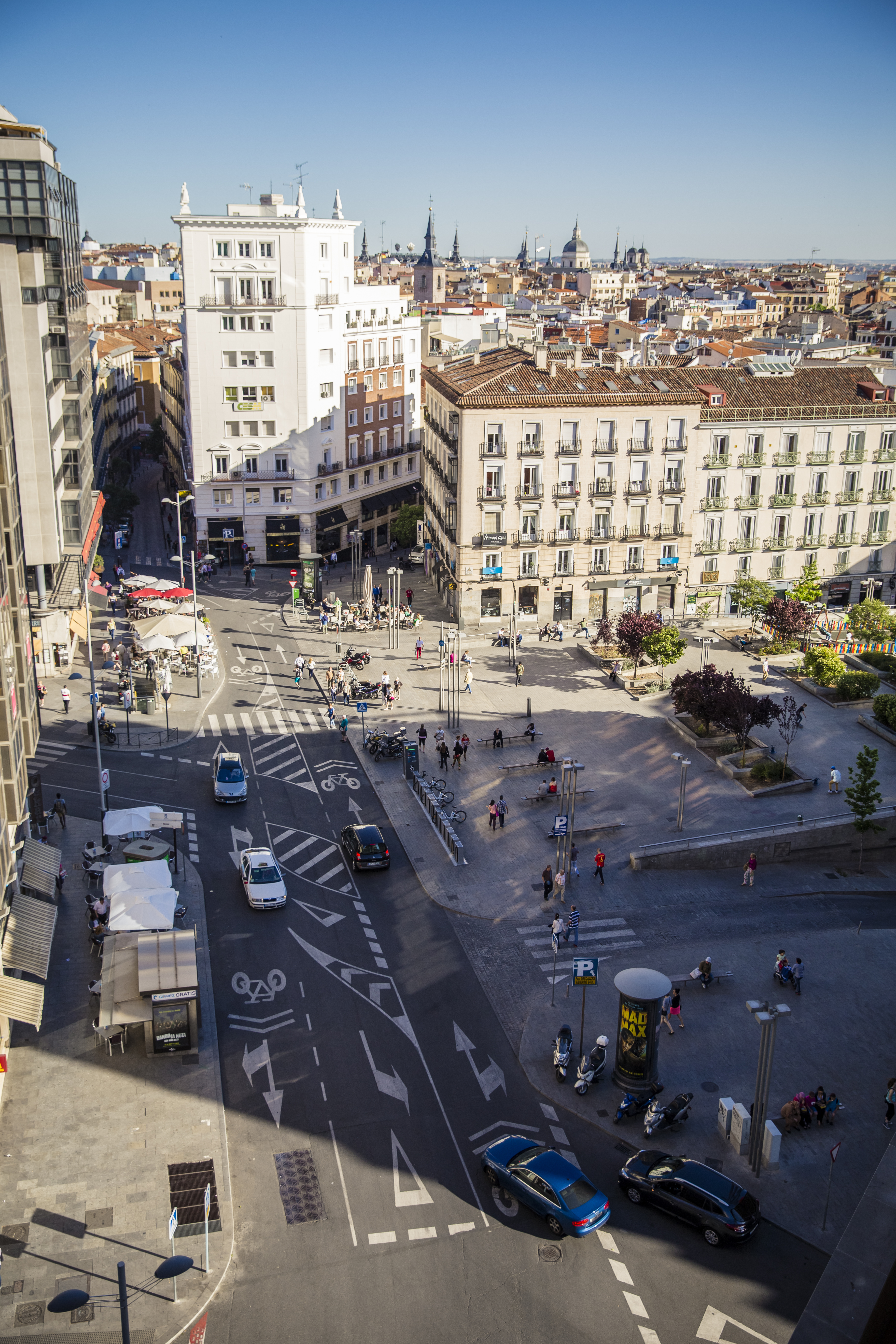 Tour around the City of Madrid Spain